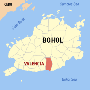 Map of Bohol showing the location of Valencia